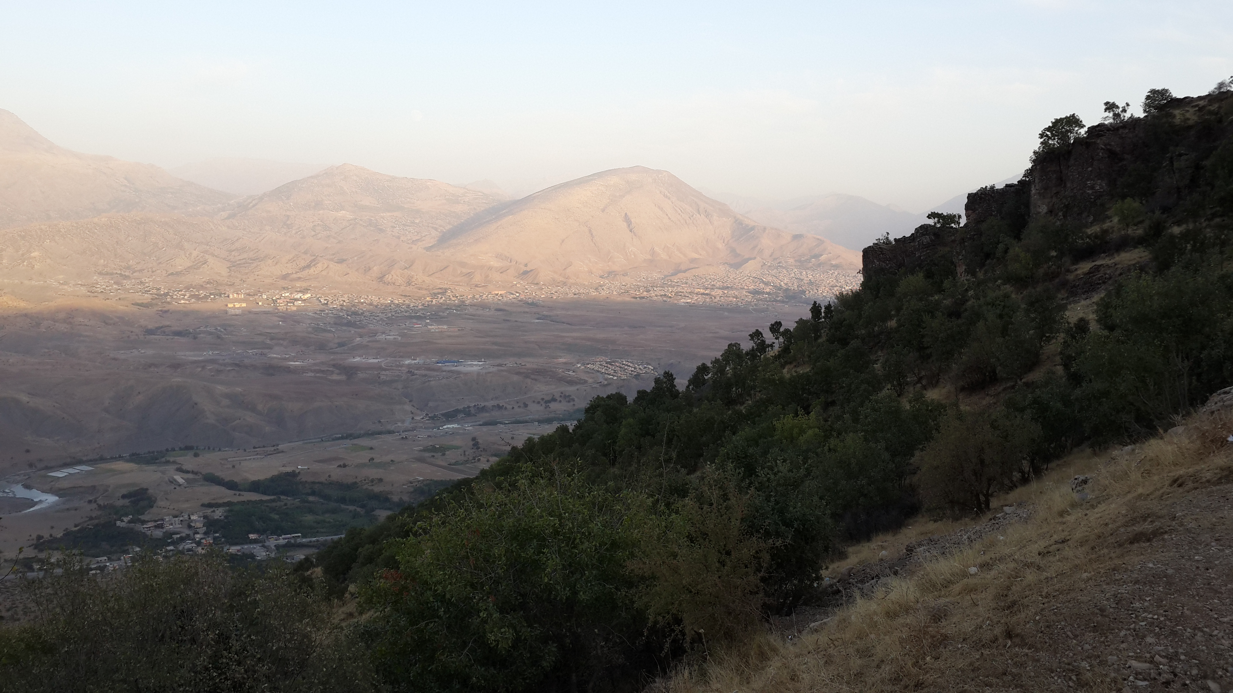 Soran City, From Bradost Mt